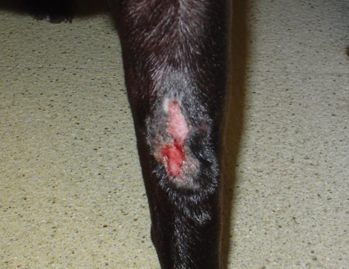 Lick granuloma on a seven year old Great Dane.